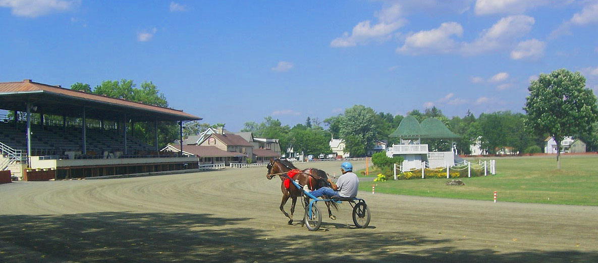 Photographed by Daniel Case on 2005-09-02.